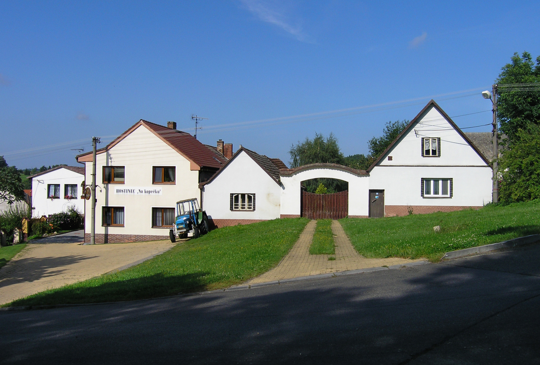 Upper common in Chotýšany village, Czech Republic